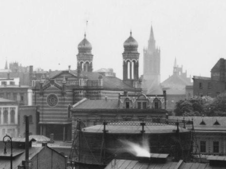 synagogue in Beuthen (now Bytom), view from East